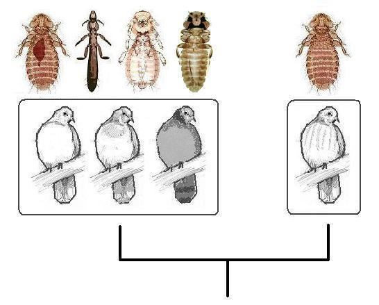 Eishler's rule (biology: evolutionary parasitology)